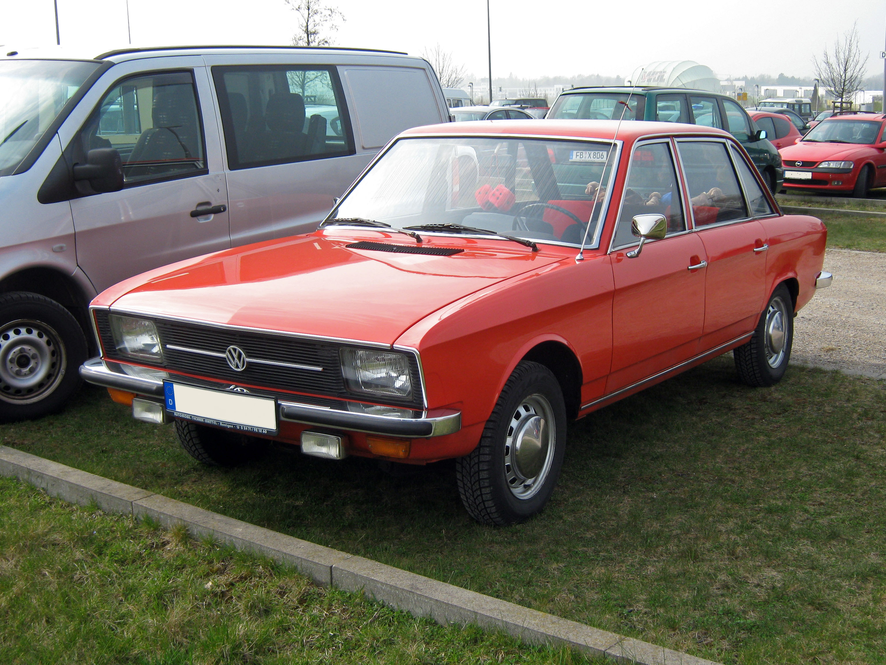 VW K 70 L frontview